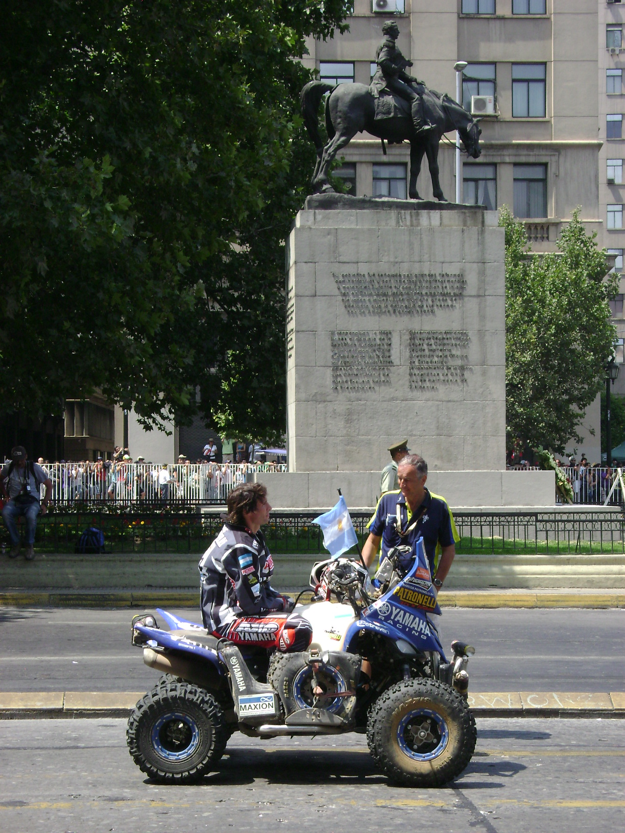 Dakar 2013 Finish and Award Ceremony, Santiago, Chile. Marcos Patronelli.